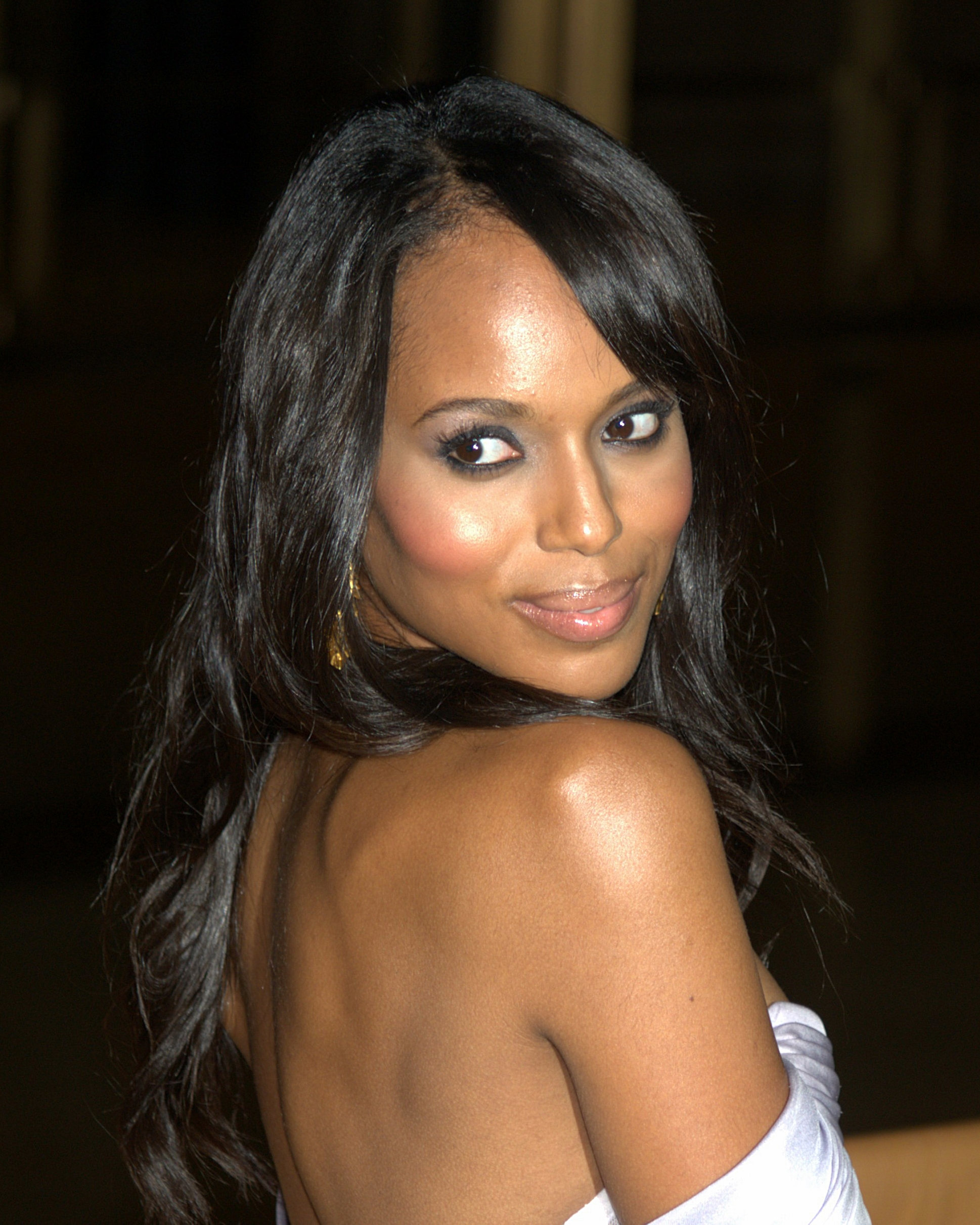 Kerry Washington at Metropolitan Opera's 2010-11 Season Opening Night - "Das Rheingold"